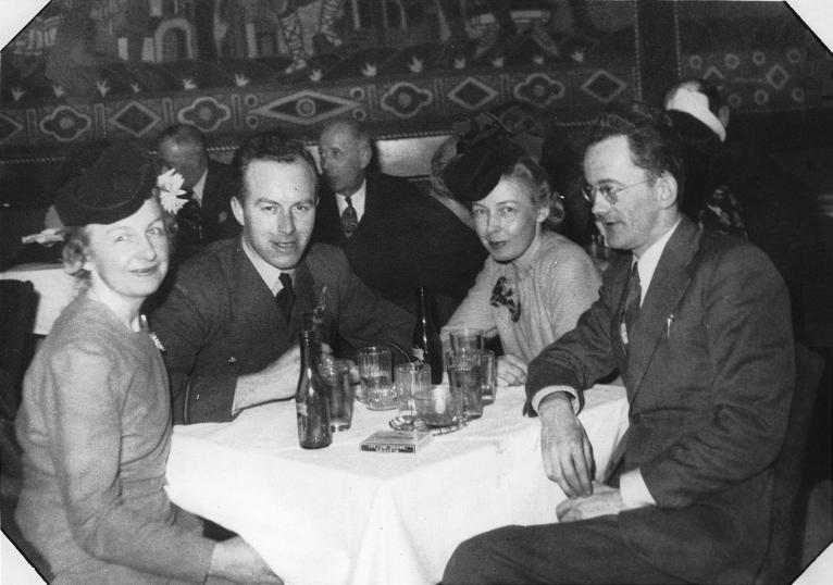 Photograph, Group at table, Samovar Club, Montreal, QC, about 1945, Samovar Souvenirs, Silver salts on paper - Gelatin silver process - 12 x 17 cm